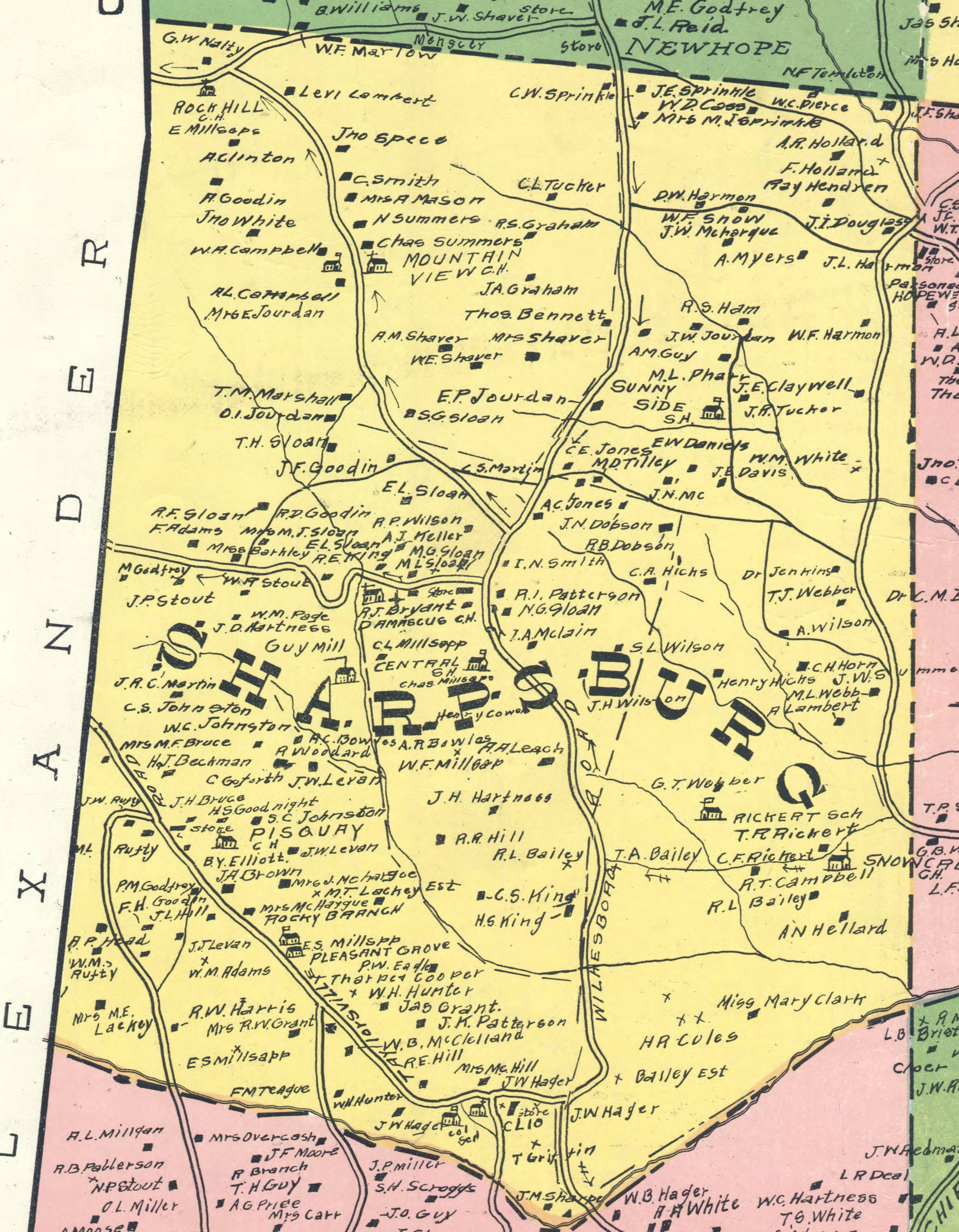 Sharpesburg Township, Iredell County, North Carolina in 1917; showing families, roads, churches, schools, and other features as they existed in 1917.